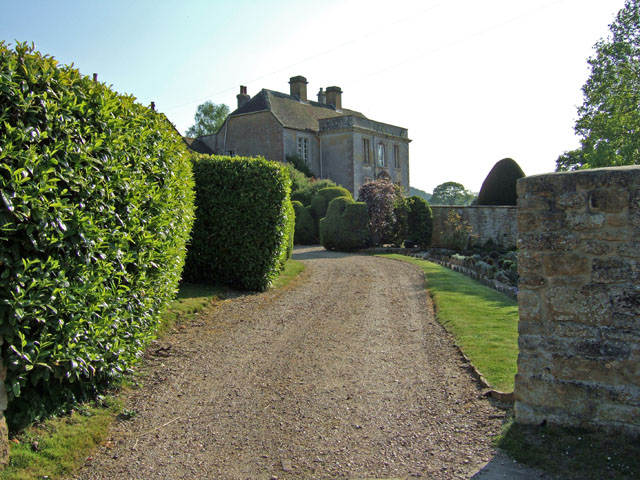 The Manor House - Compton Pauncefoot Grade II listed, late C18 manor house, the former farmhouse of Compton Farm.